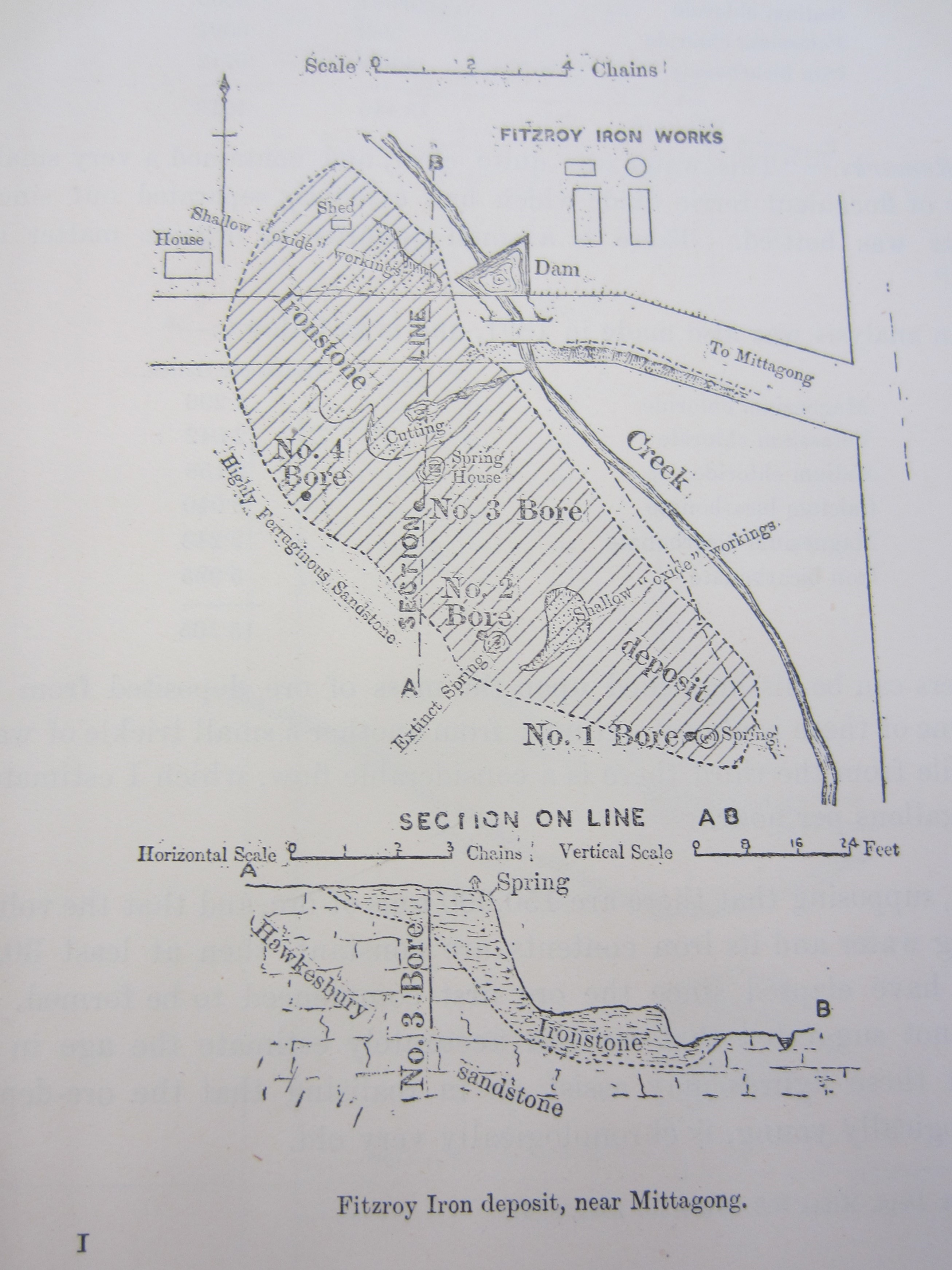 Map and section of the Fitzroy iron ore deposit at Mittagong NSW, showing position of the spring-hous for the Chalybeate Spring Mittagong, NSW, c.1901. (Reproduced from Page 51 of 'The Iron Ore Deposits of new South Wales' by J.B. Jaquet.